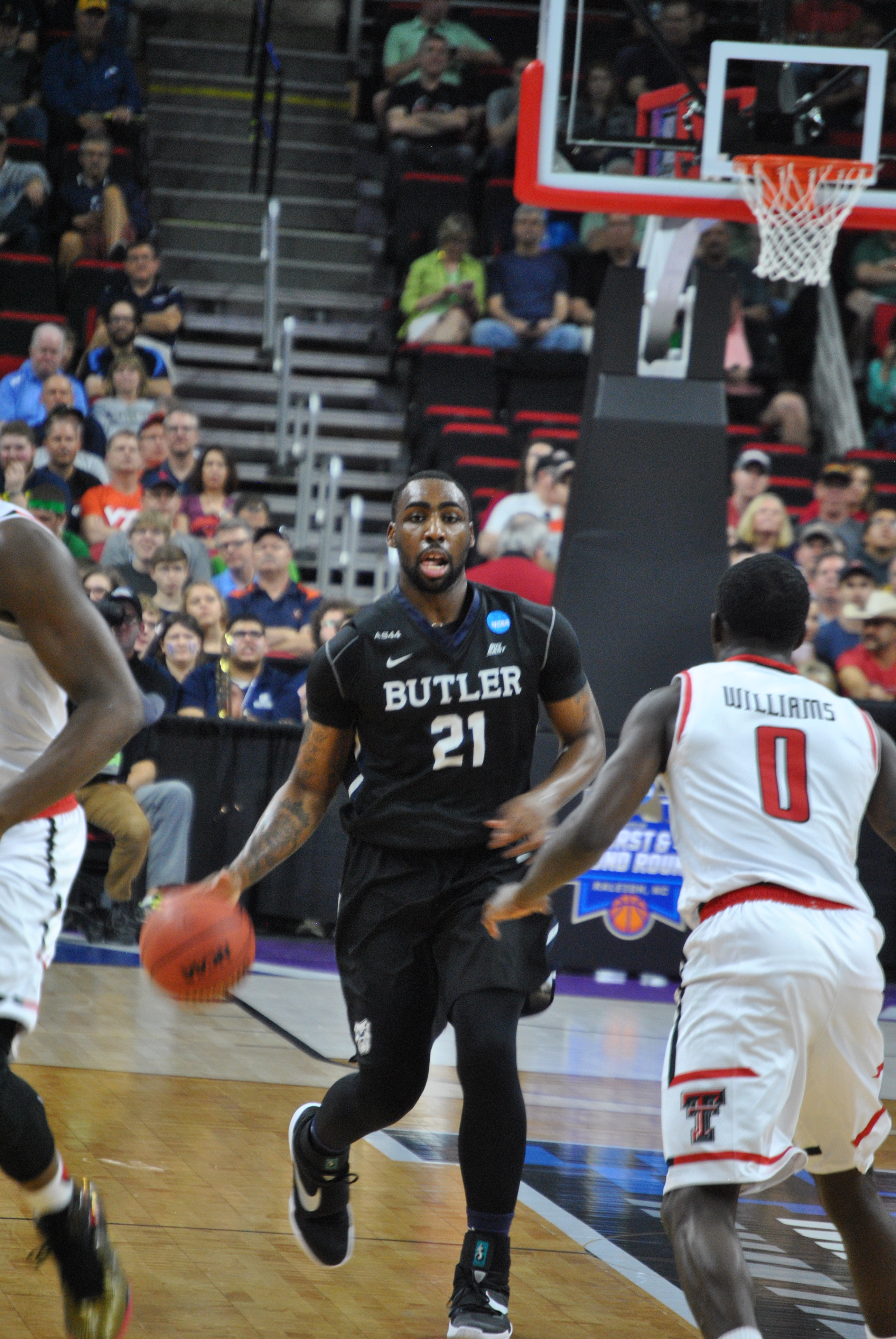 Game 1 of the NCAA Basketball Tournament in Raleigh featured the Butler Bulldogs and the Texas Tech Red Raiders. The Bulldogs came out on top by a score of 71-61 to advance to the Round of 32